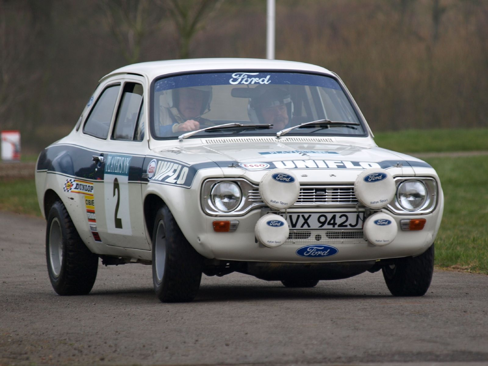 Roger Clark's References for this description (or part of this) or for the depiction in the file are not provided. Reason: 1972 RAC Rally -winning. Ford Escort RS1600 driven at Race Retro 2008, the International Historic Motorsport Show, at Stoneleigh Park, Coventry, England.